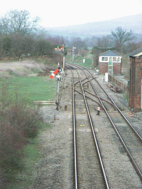 The signals are off The site of Woofferton station. The signals have been set to allow the approaching train to proceed along the main line. The further facing signal (the red & white one) for the North-bound (left-hand) line is a junction signal. The slightly taller post carries the signal for the most important route with the lower post carrying the signal for the lesser route (in this case a siding). These signals are lower quadrant signals, following the traditional Great Western Railway system. For all railway companies a horizontal arm indicated danger.